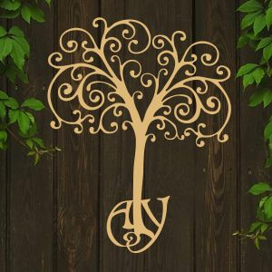 This is the logo of ethno-fashion show